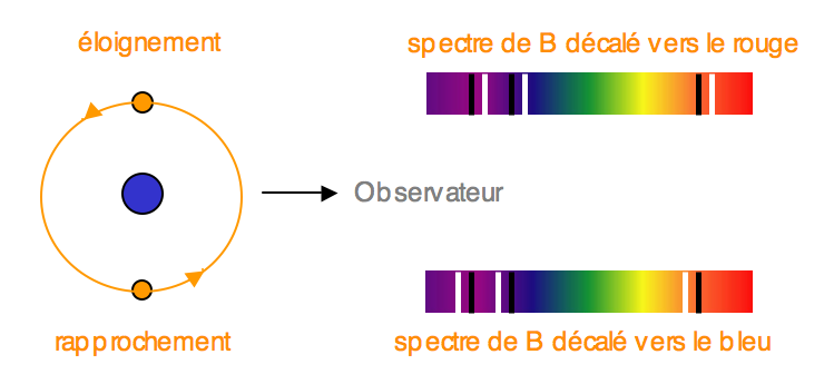 spectre du compagnon B d'une binaire spectroscopique - spectrum of component B of a spectrocopic binary